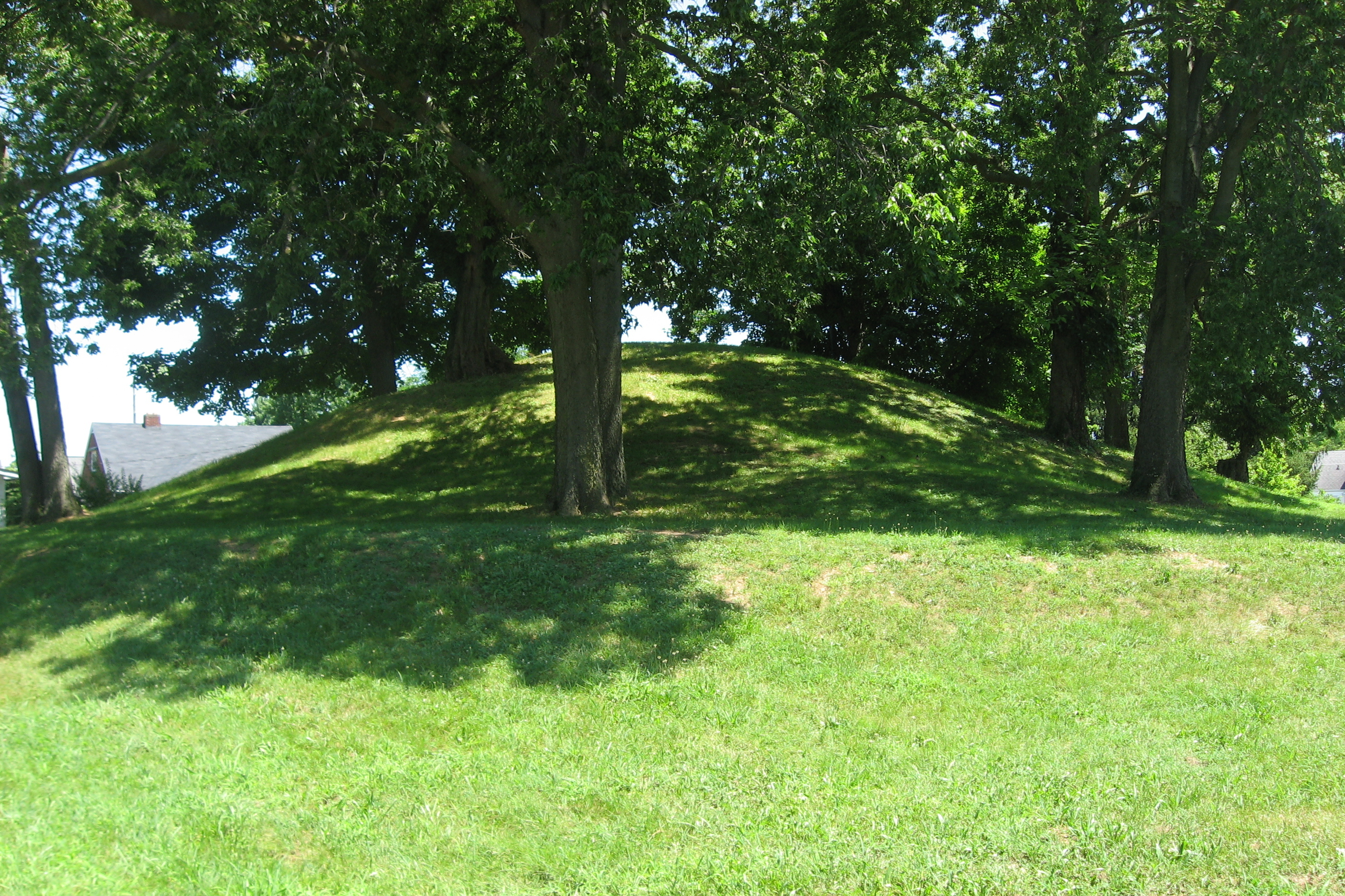 Southern and eastern sides of the Story Mound, located on the eastern side of Delano Avenue south of its intersection with Cherokee Street on the western side of Chillicothe, Ohio, United States. Built by people of the Adena culture, it is the center of the Story Mound State Memorial, and as a significant archaeological site, it is listed on the National Register of Historic Places.